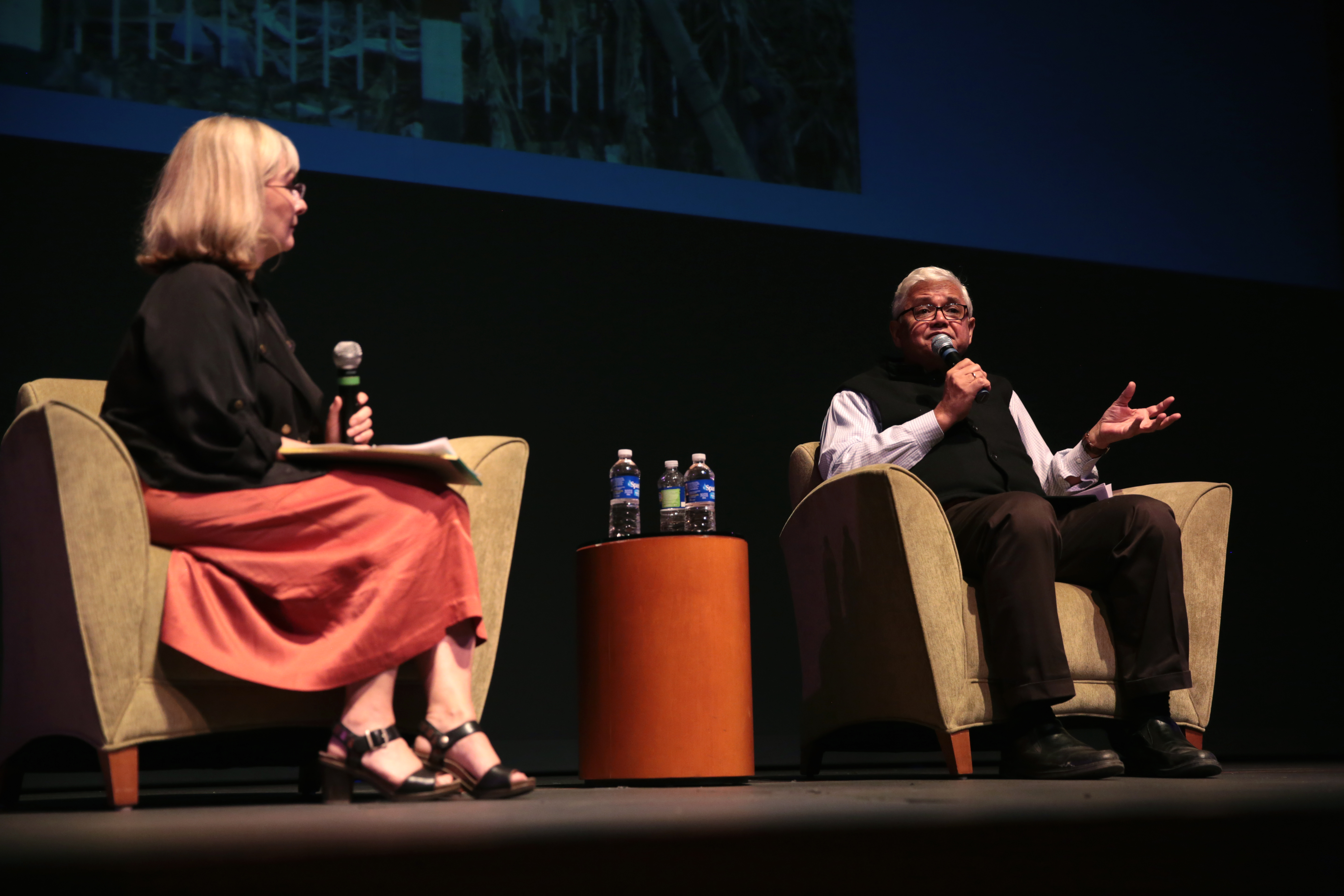 Joni Adamson and Amitav Ghosh speaking with attendees at an event titled "War, Race and Empire in the Anthropocene" hosted by the Virginia G. Piper Center for Creative Writing at the Tempe Center for the Arts in Tempe, Arizona.